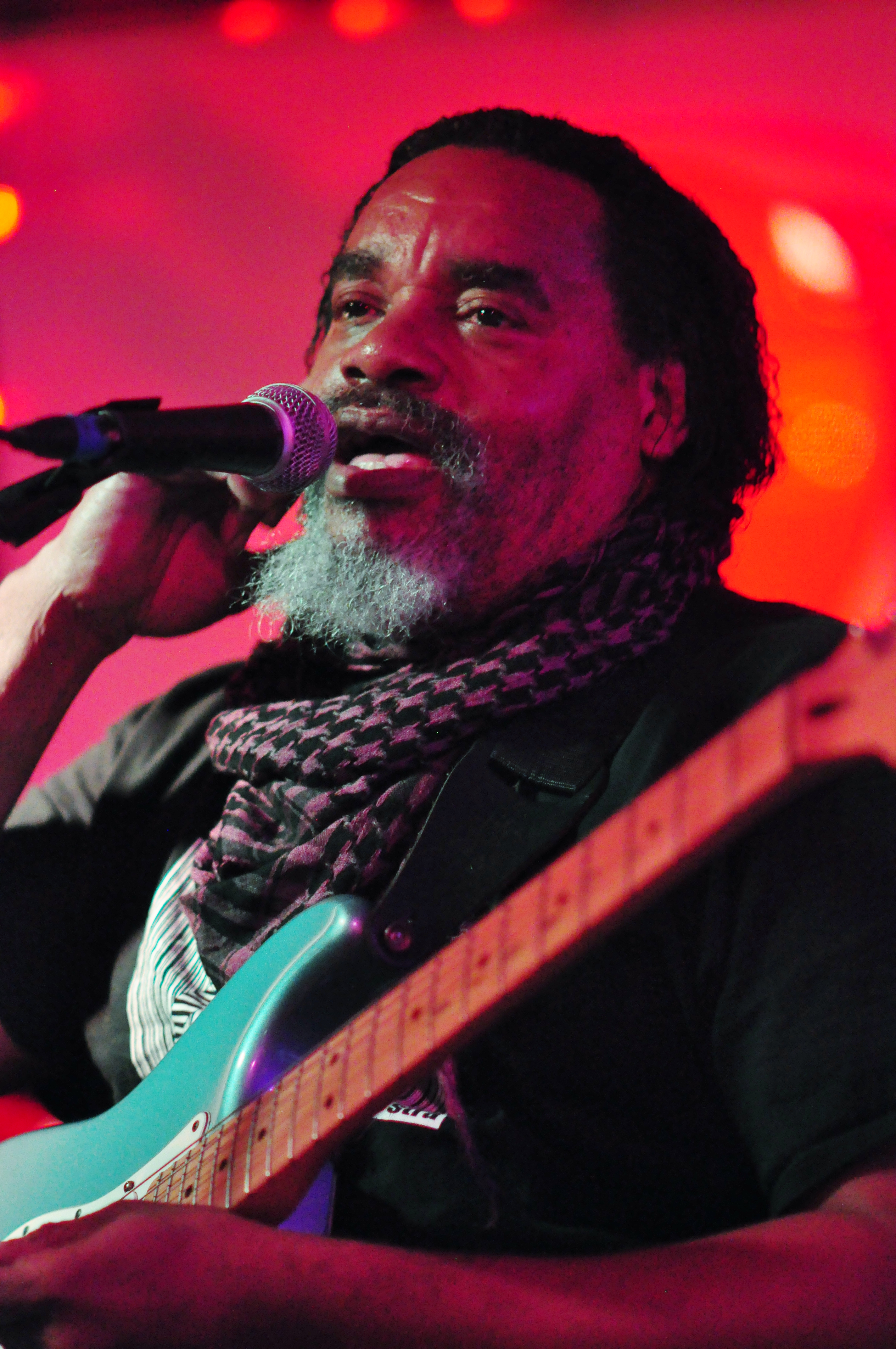 Ike Willis performing with Pojama People on the "Reindeer Ripped My Flesh" tour. Picture taken at Darrell's Tavern, Shoreline, Washington.